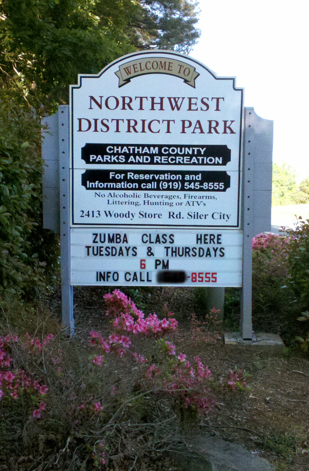 Northwest Park, Chatham County NC, USA, May 2013. Entrance Sign.